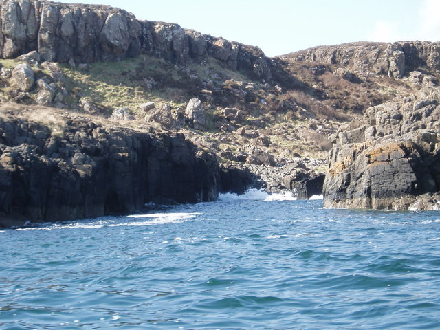 Coastline, SE Little Colonsay I think this is Port an Roin on the SE corner of the island